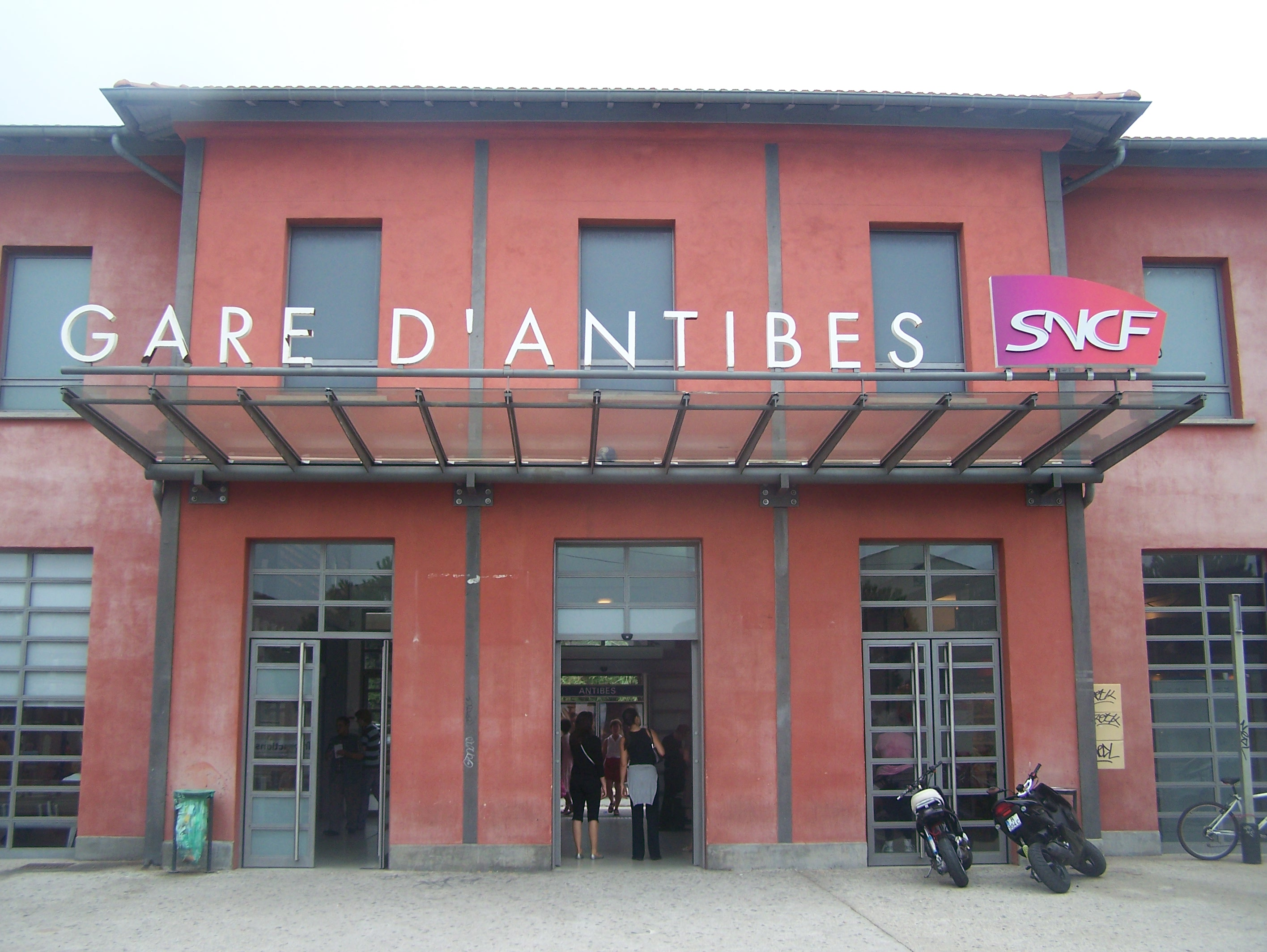 Front of Antibes train station, on the Southern coast of France (Alpes-Maritimes).